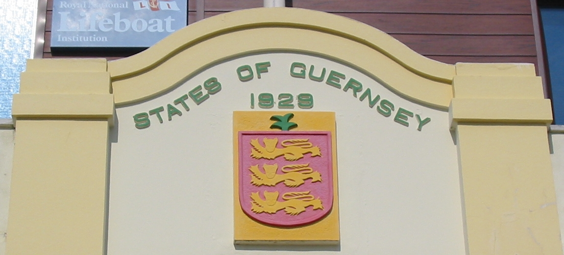 Saint Peter Port, Guernsey, May 2009